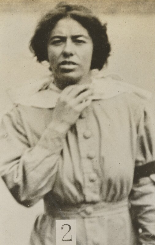 An image created by the United Kingdom's Criminal Record Office and then made available at the UKs National Portrait Gallery. These date from c.1914 when the suffragettes had an arson campaign before WW1